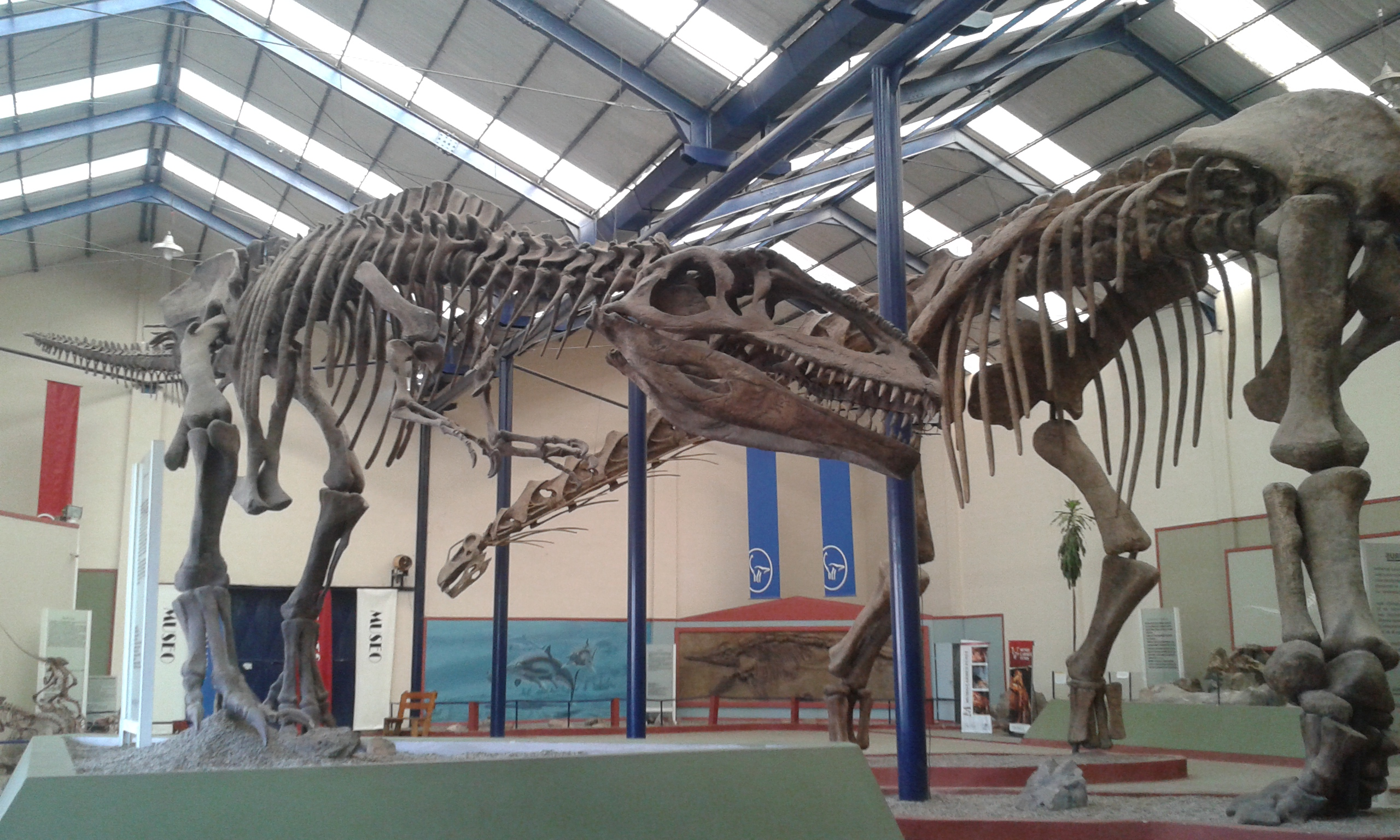 Carmen Funes Museum